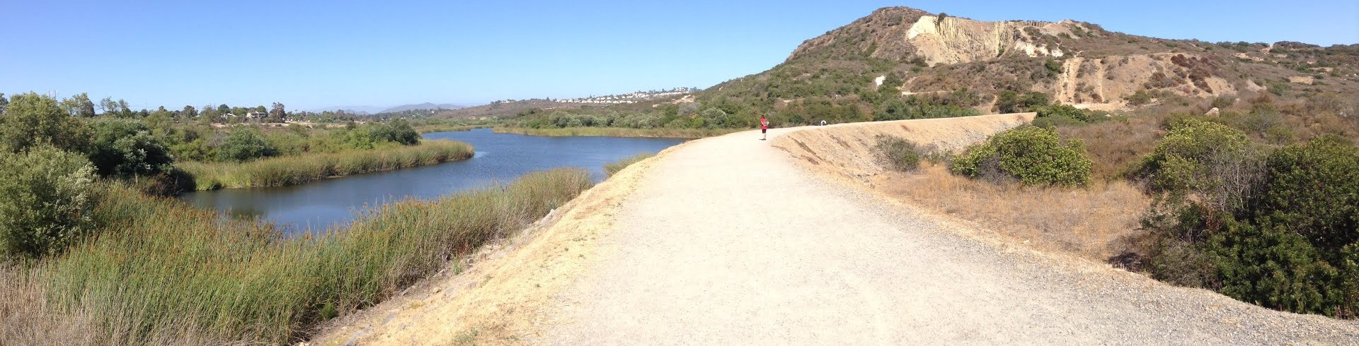 A panorama of Mount Calavera in Carlsbad, California. It was taken on 21 June 2013.